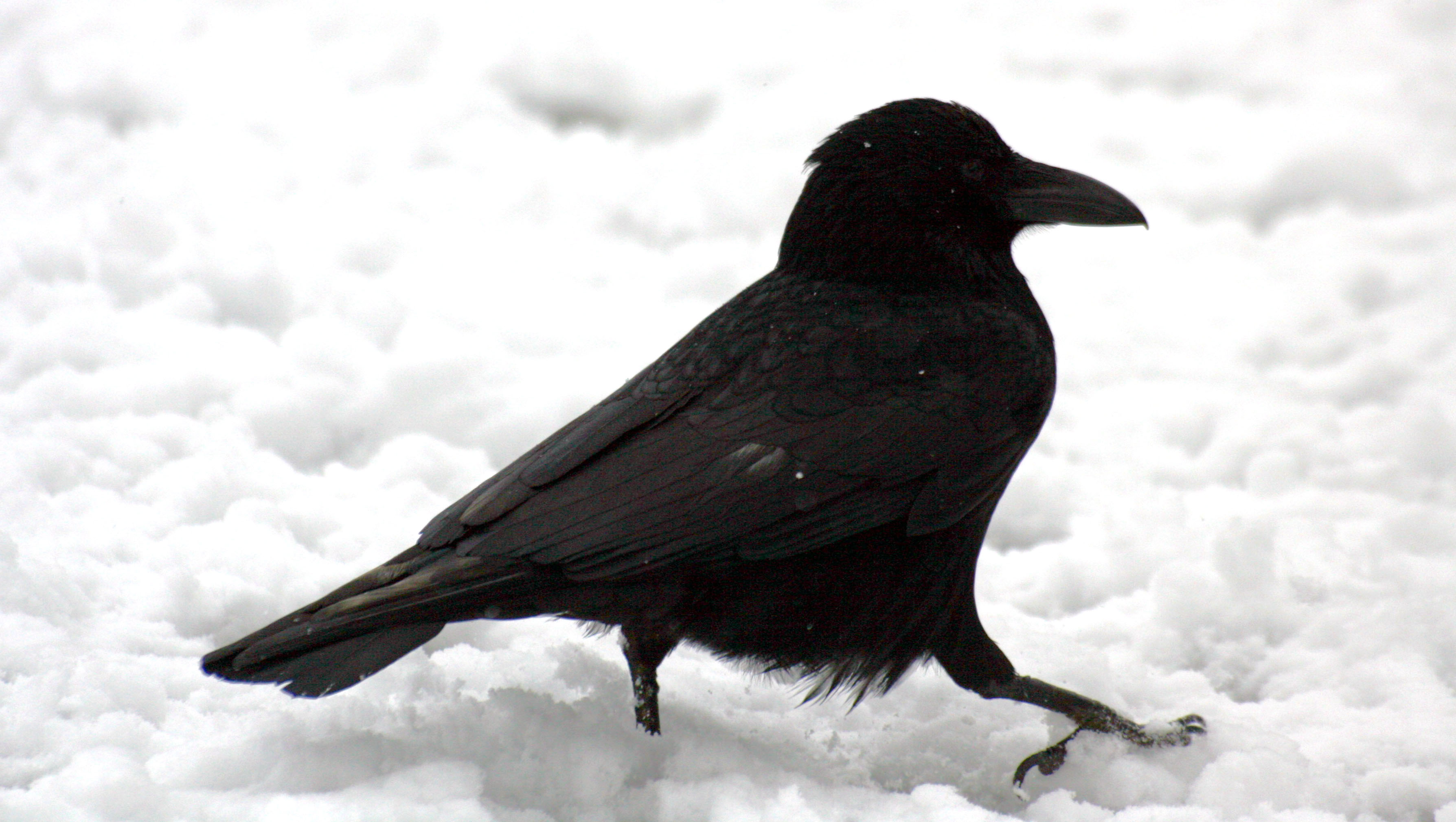 Highest Explore Position #329 ~ On April 12th 2008. Rook - Greenwich Park, London, England - Sunday April 6th 2008.